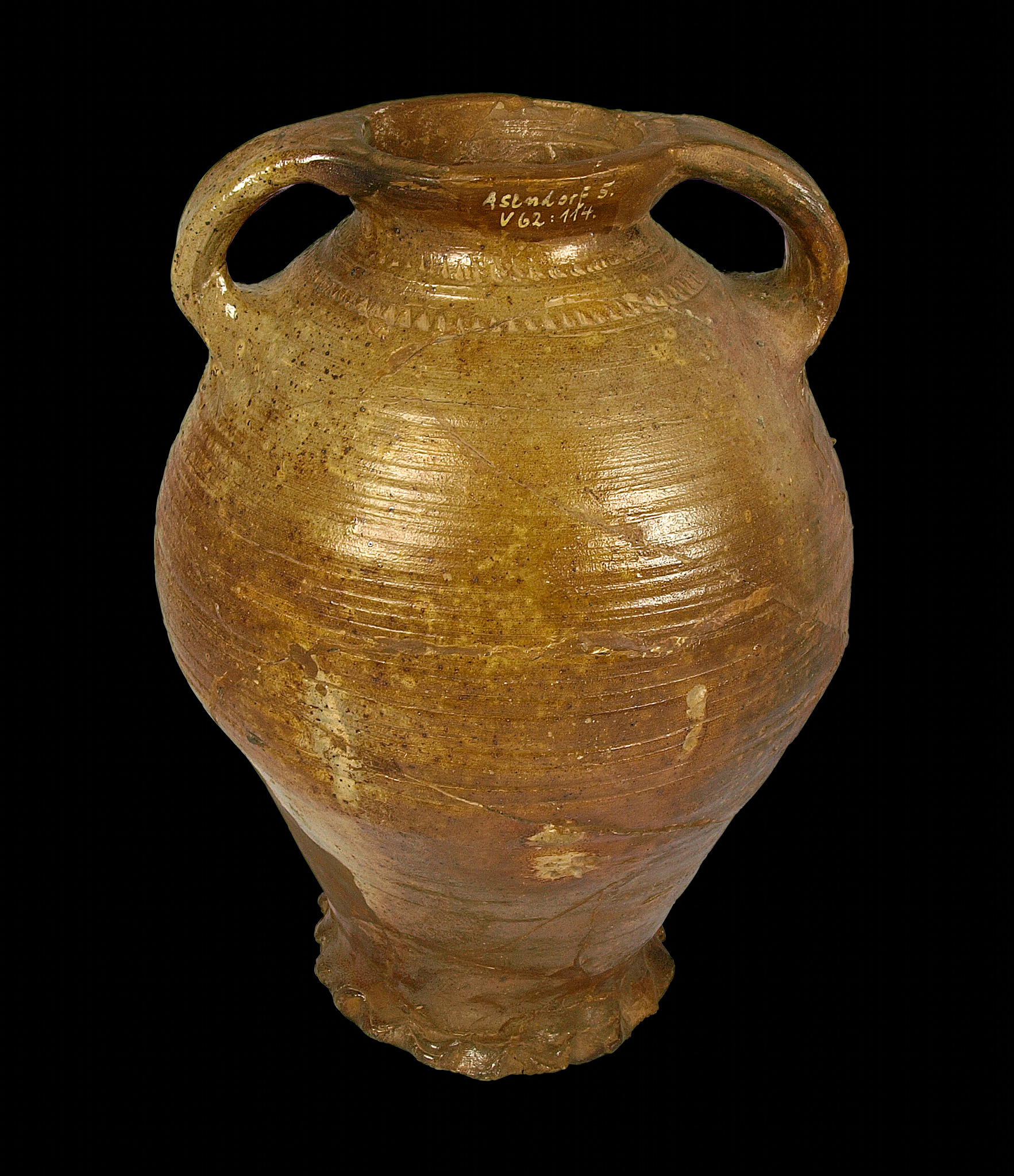 Rhenish stoneware jug from the Asendorf coins hoard